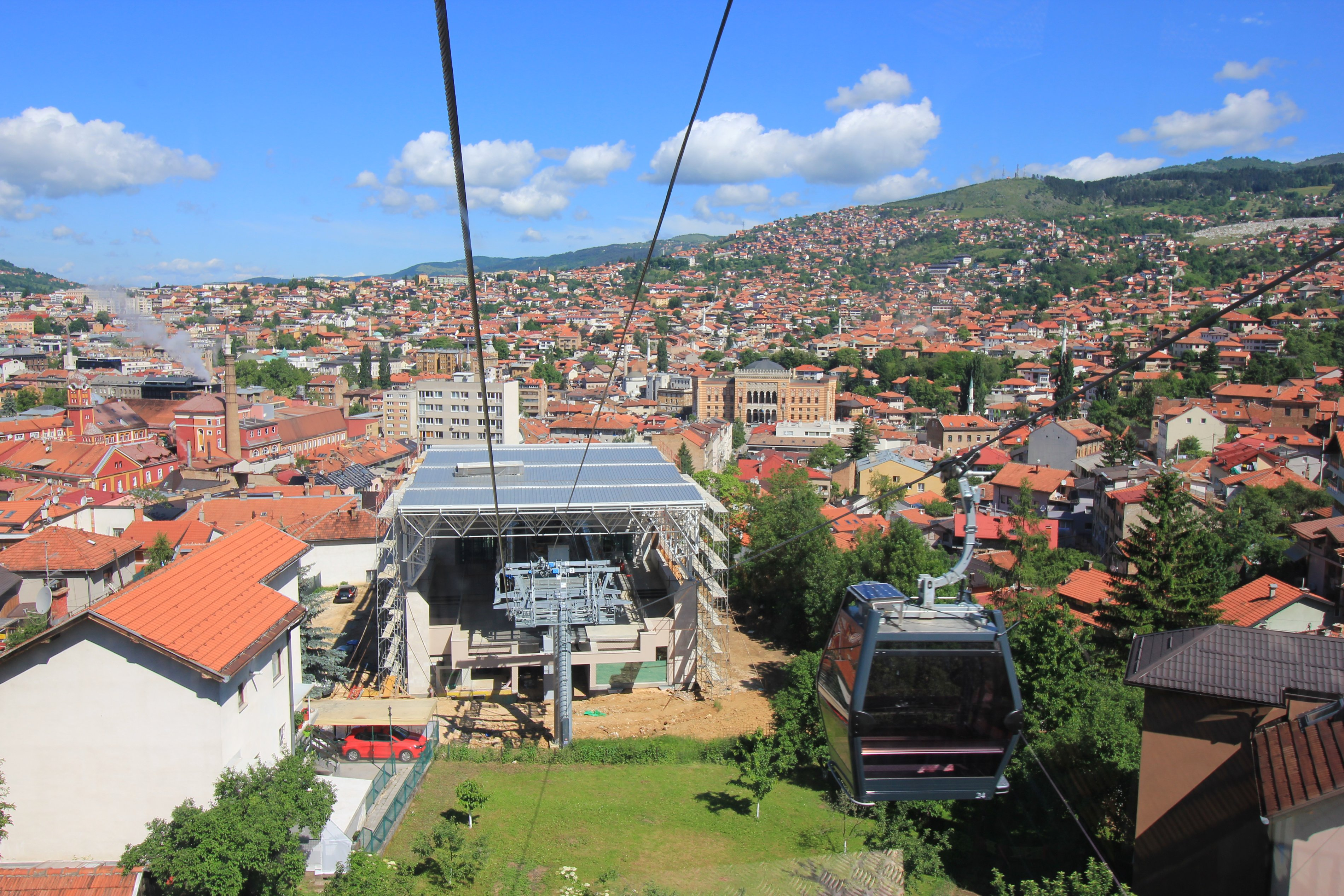 Trebević Cableway in Sarajevo.